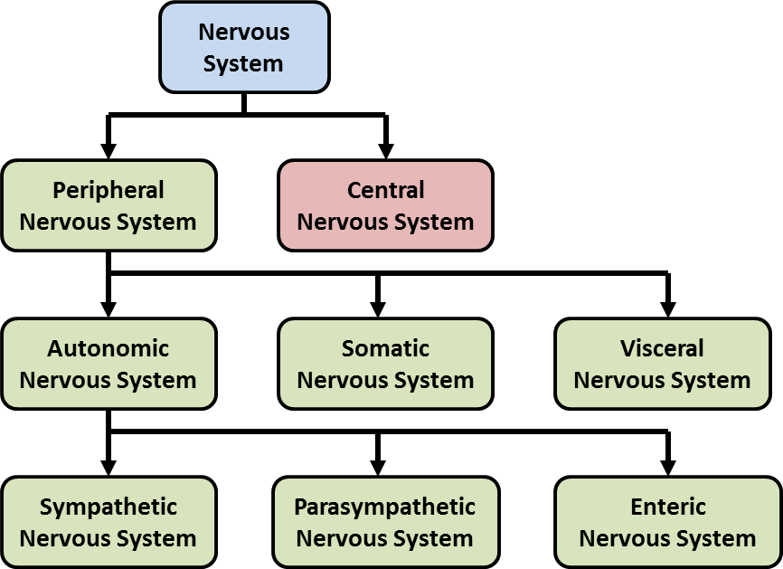 The components of the nervous system are outlined in the graph.